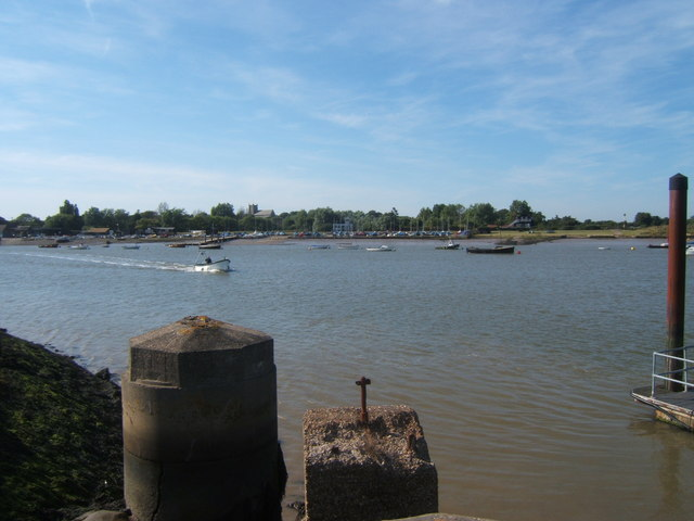 Ferry, Orford Ness The ferry boat approaches.